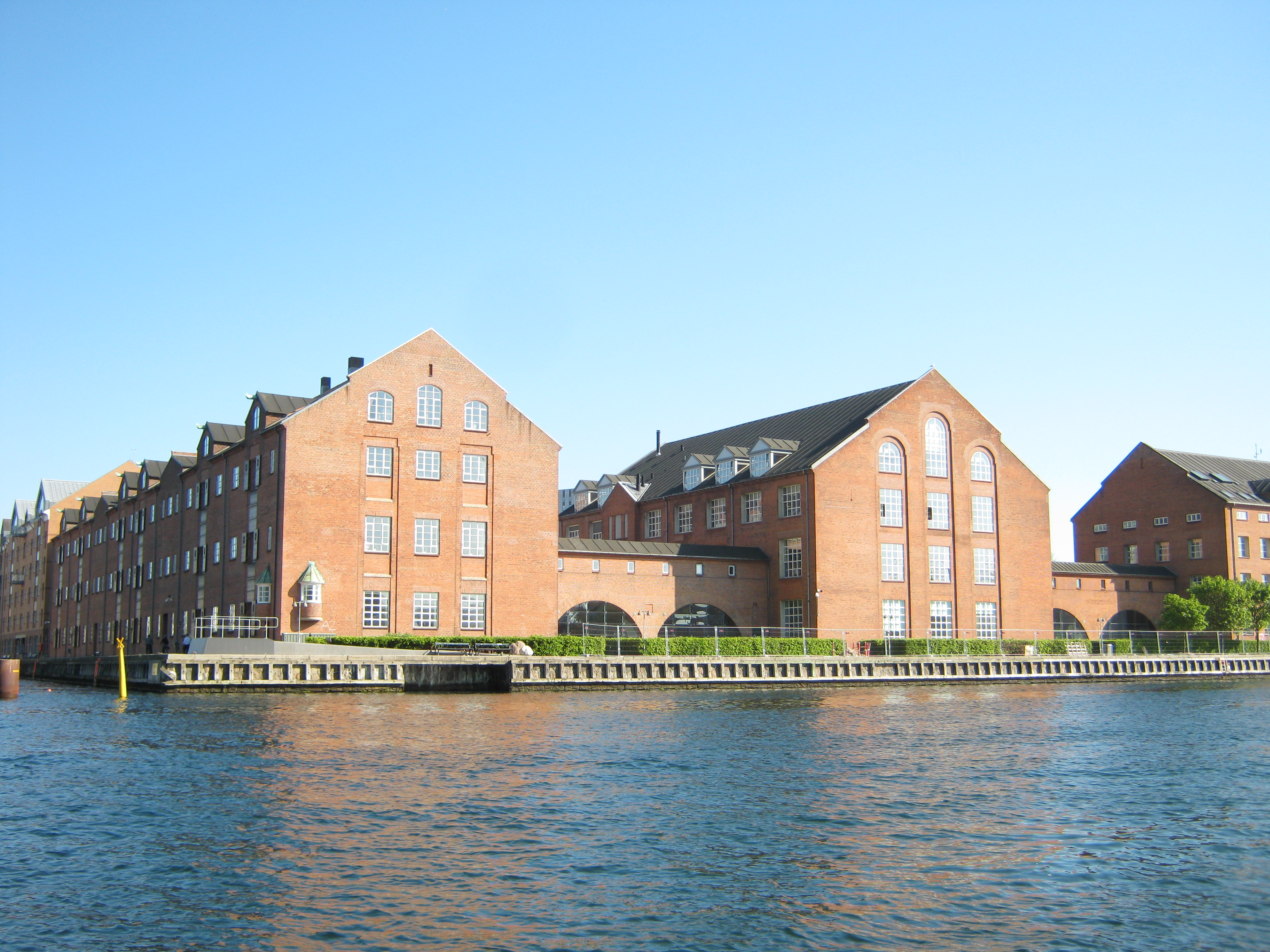 Buildings at Applebys Plads in Copenhagen, Denmark